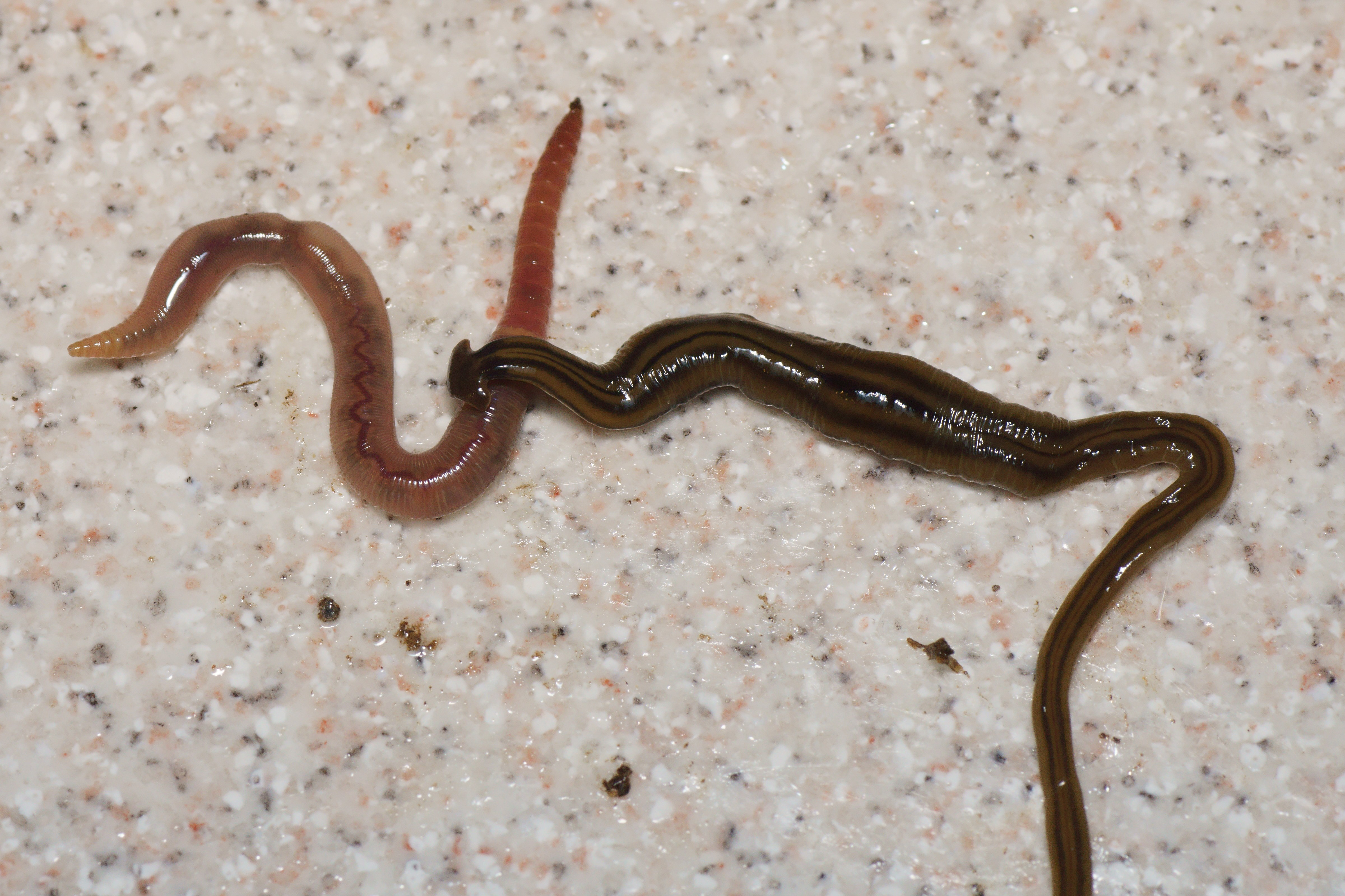 Figure 7 of paper Bipalium kewense, predation on earthworm. The flatworm initiates here the process of ‘capping’ the anterior end of the earthworm. Observed reactions of the prey suggest that it is at this stage that the planarian secretes a toxin to reduce prey mobility. The planarian also produces secretions from its headplate and body that adhere it to the prey, despite often sudden violent movements of the latter during this stage of capture. Photo by Pierre Gros.